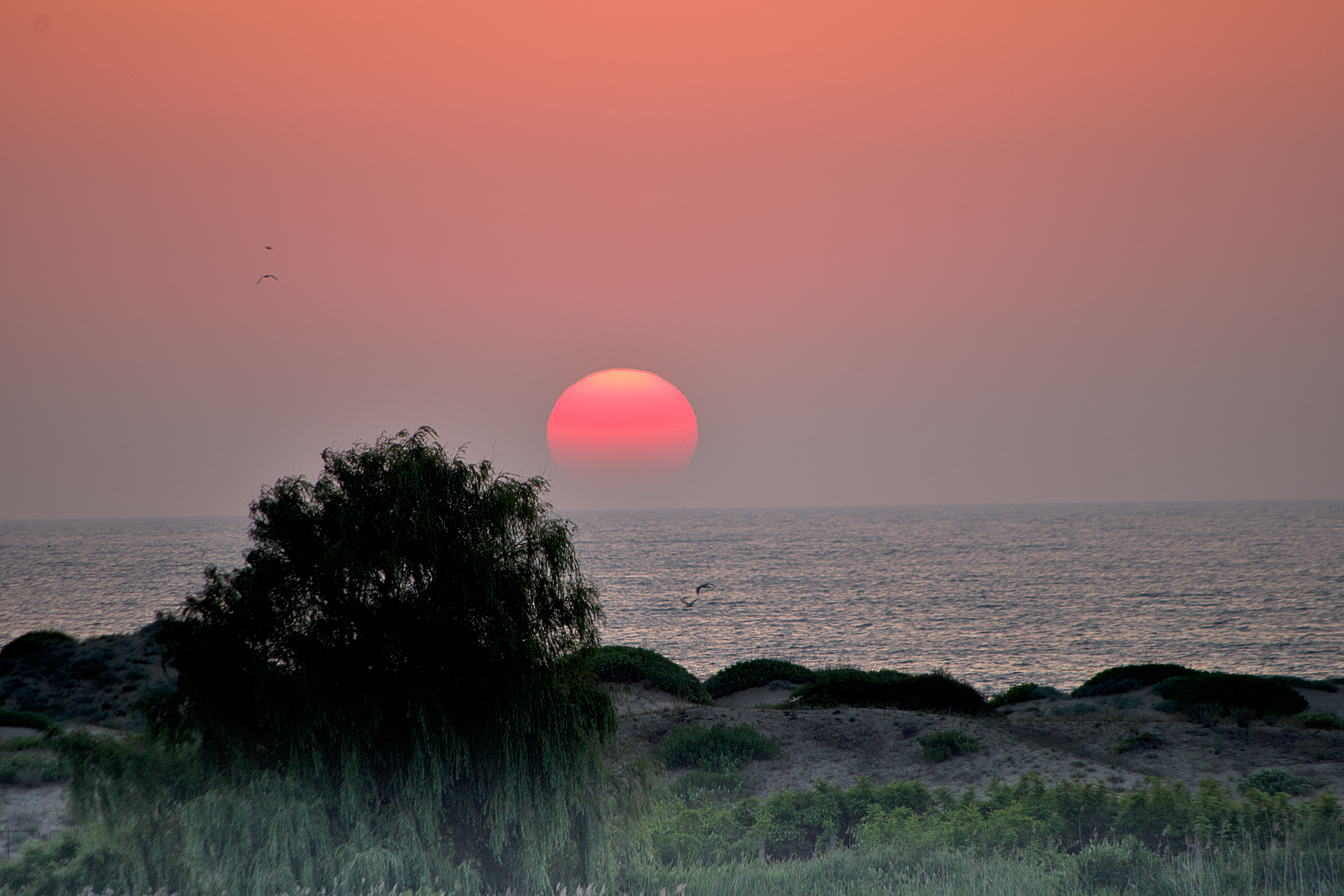 Black Sea Primorsko dunes sunrise